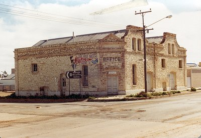 Seppelts Warehouse: Sepplets Warehouse